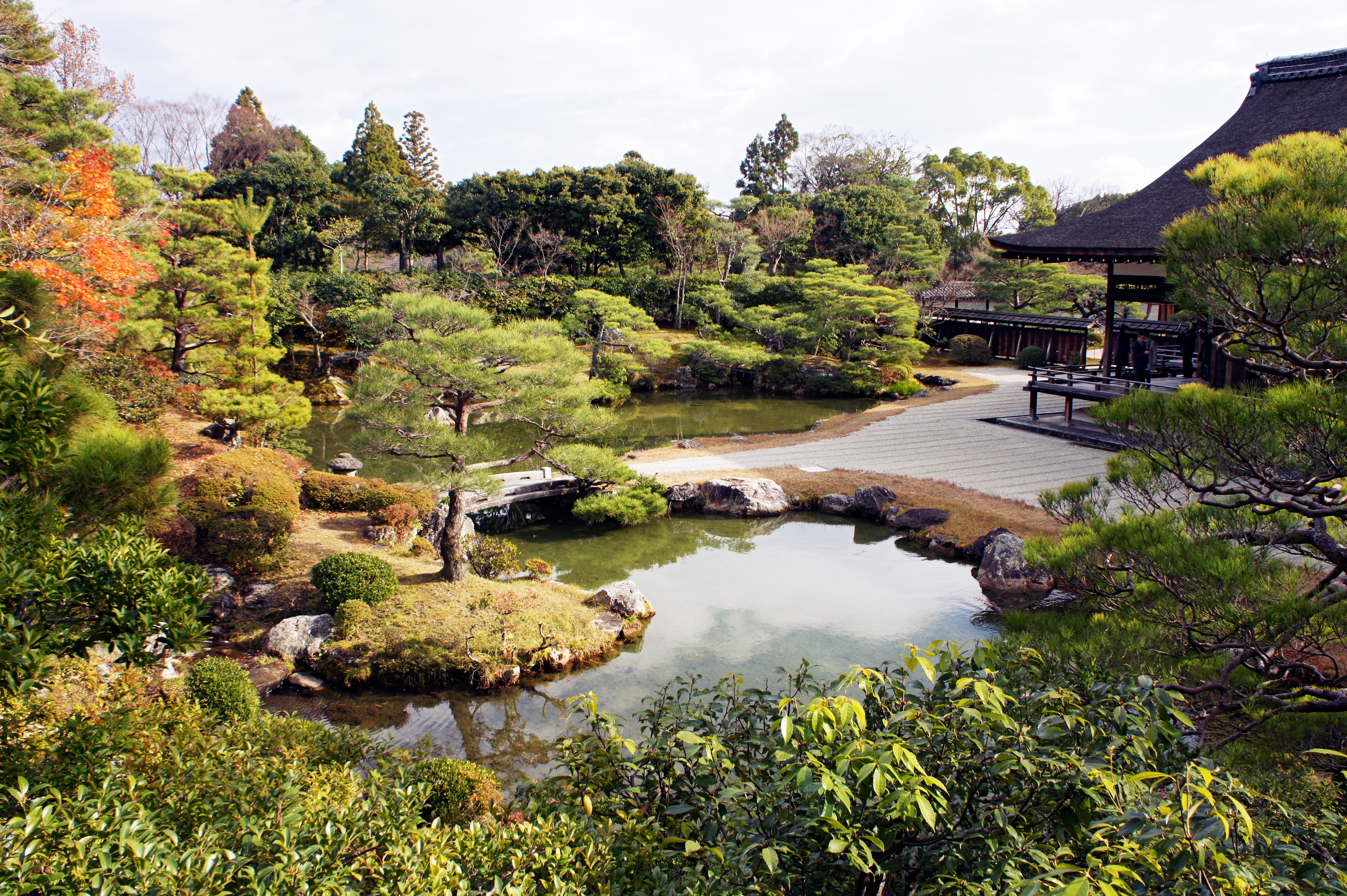 Ninna-ji Shinden Hokutei (North Garden) in Ukyō-ku, Kyoto, Kyoto Prefecture, Japan. Ninna-ji was registered as part of the UNESCO World Heritage Site "Historic monuments of ancient Kyoto".